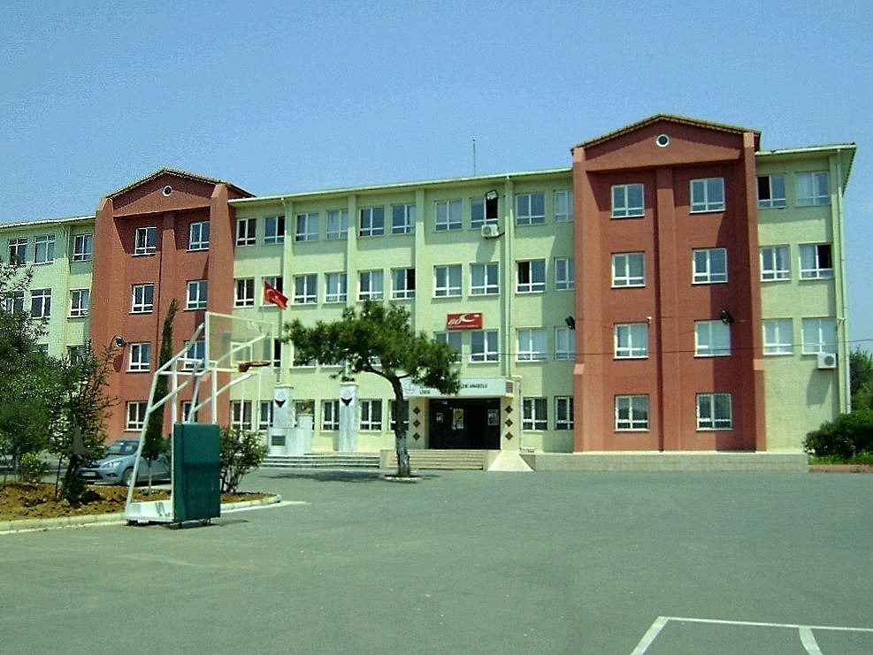 İstanbul Köy Hizmetleri High School